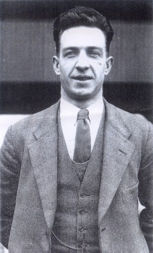 Eddie Harper